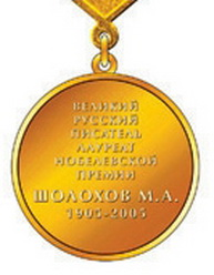 Commemorative medal «the Great Russian writer Nobel prize winner M.A.Sholokhov 1905-2005» revers